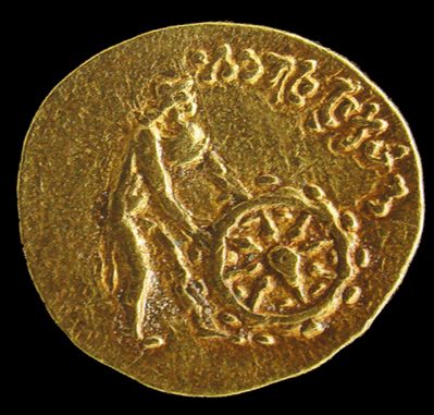 Tilia Tepe (Tillya Tepe) gold token. Kabul Museum. Bibl : Gérard Fussman et Anna Maria Quagliotti, The early iconography of Avalokitesvara L'iconographie ancienne d'Avalokitesvara, Collège de France, Publications de l'Institut de Civilisation indienne. Paris, Diffusion De Boccard, 2012. ISBN 978-2-86803-080-1. Quotation / Gérard Fussman, p.28 : "The first experiment (in the representation of the Buddha's image) is attested in this gold token from a monastery. (Found) from a grave in Northern Afghanistan, most probably coined in Gandhara since the legends are written in Kharosthi script. (on one side) A greek god, Zeus (or Herakles, according to professor Tanabe) [...] (legend : « he who sets in motion the Wheel of the Law ». [...]a lion walking to the left (legend :« the lion who chased away fear ». [...] (date:)c. B.C. 50 - c.A.D. 30, at the latest before A.D. 50." The photograph is not a scan taken from the book. See also : in Commons : File:Met, gandhara, hercules and the nemean lion, 1st century.JPG